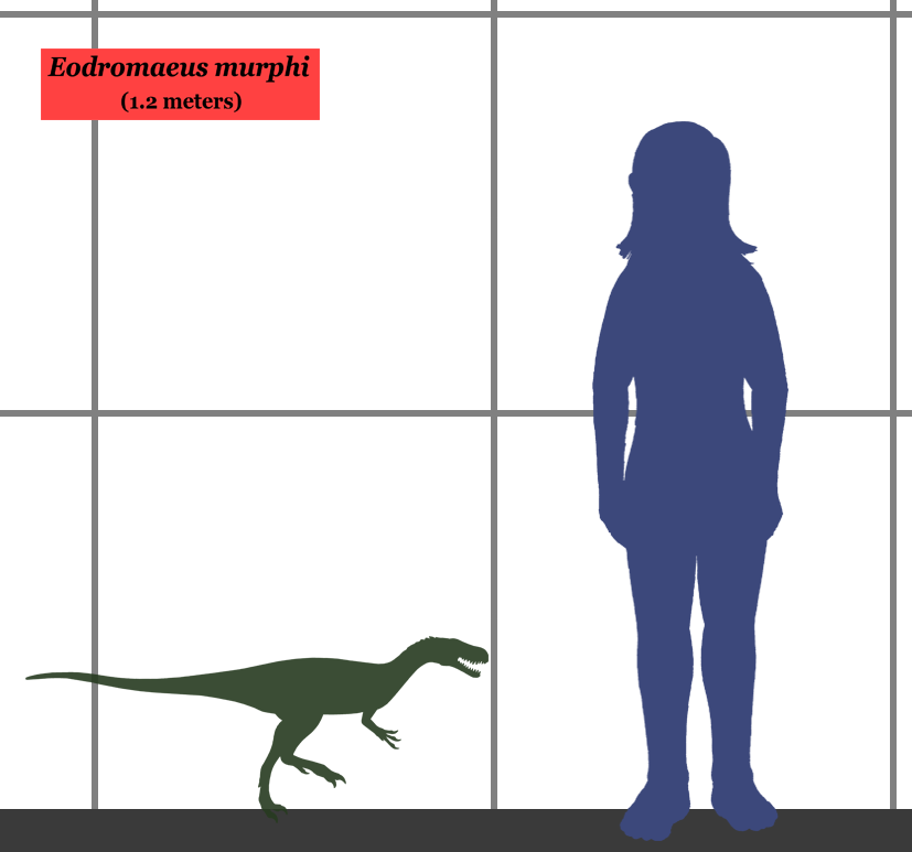 Size of Eodromaeus murphi (Dinosauria, Theropoda) and a human.